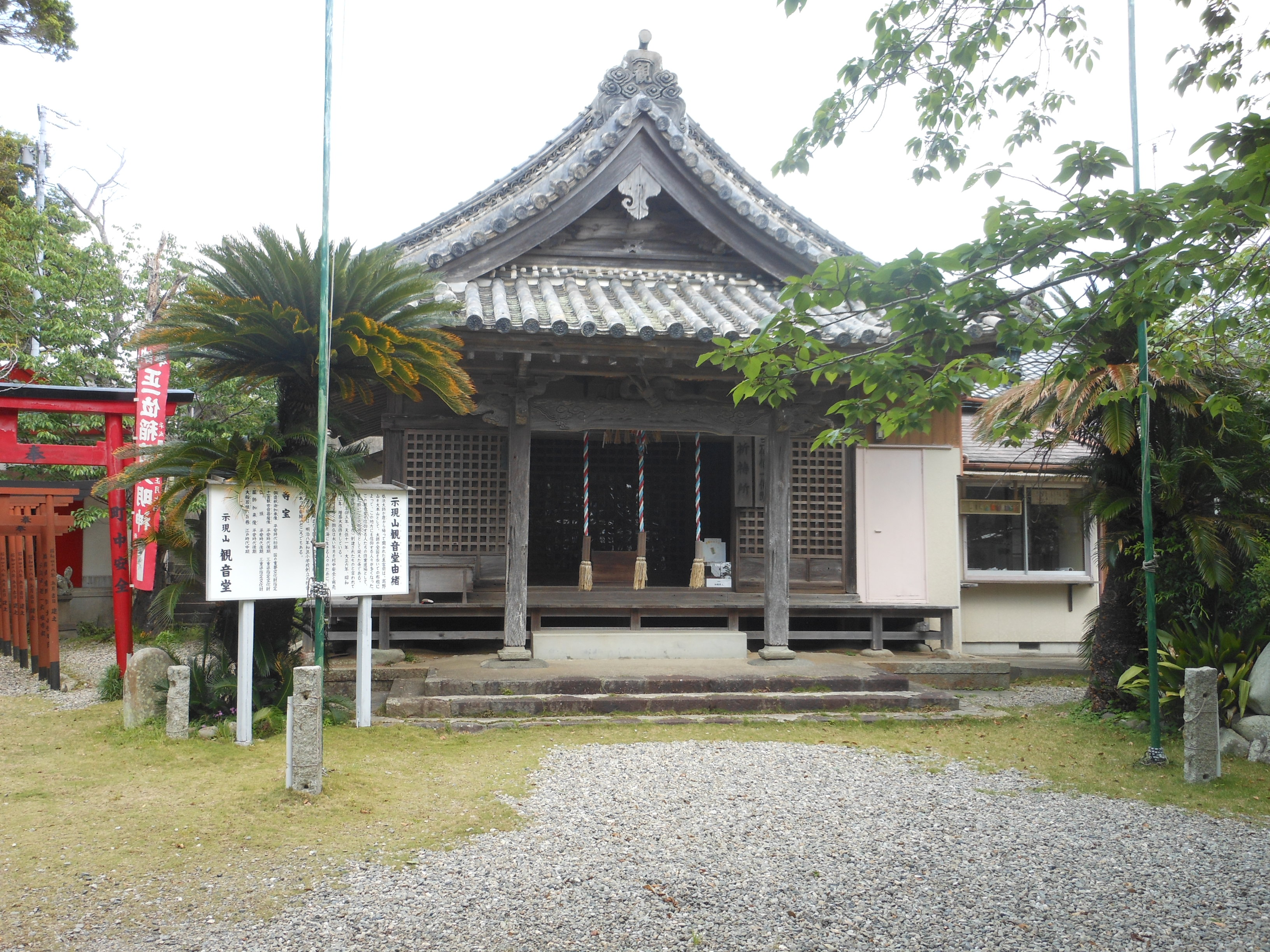 This is the Wagu Kannondo temple in Shimacho-Wagu, Shima, Mie, Japan.